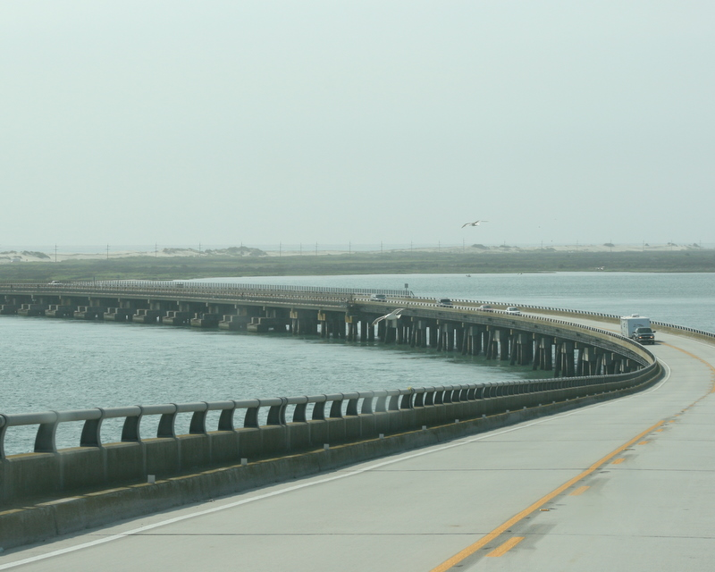 Ground-level view of the Herbert C. Bonner Bridge, which carries North Carolina Highway 12 over the Oregon Inlet in Dare County, North Carolina, United States.